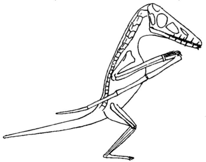 Scaphognathus crassirostris skeletal reconstruction.